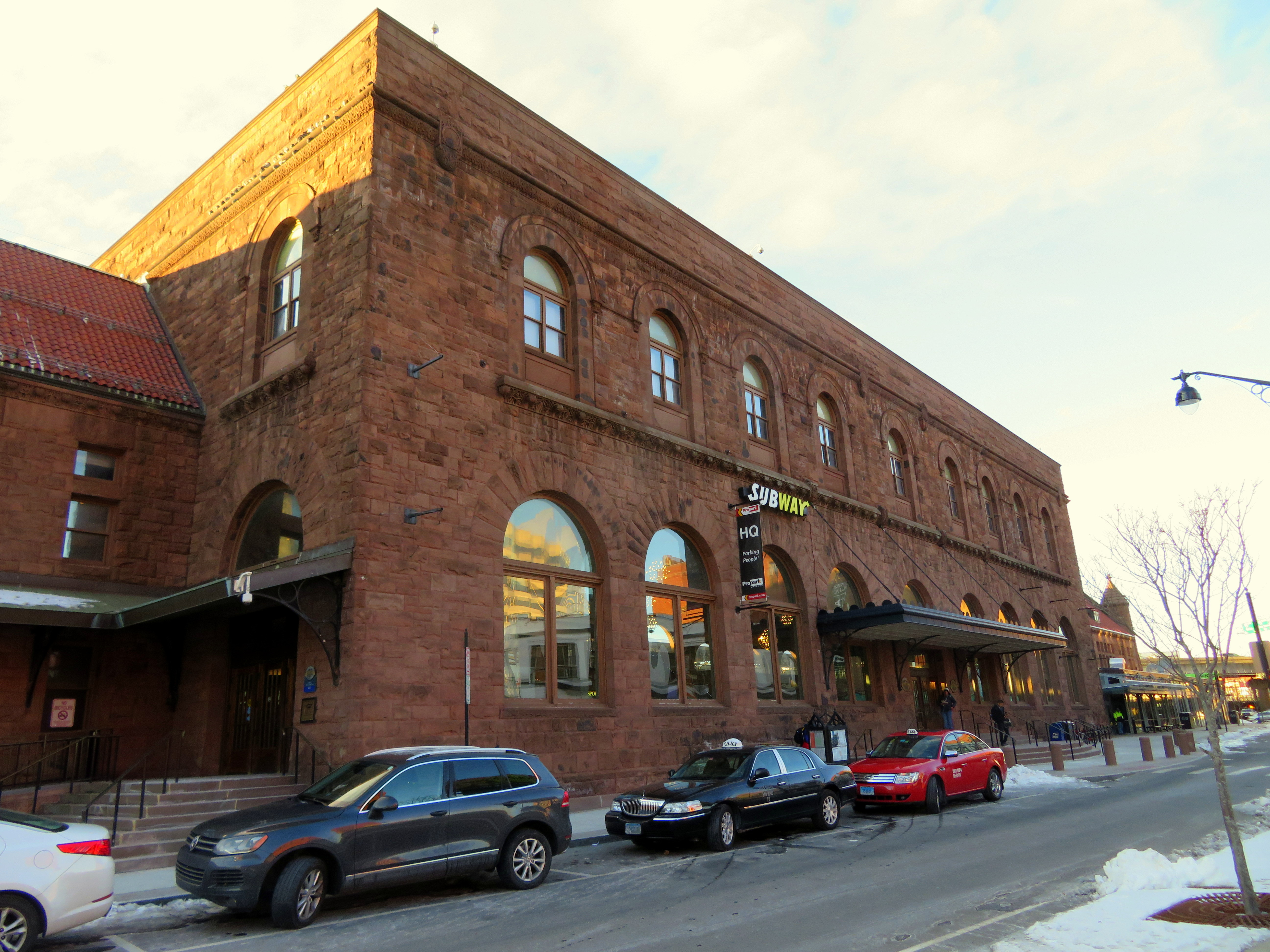 Central section of Hartford Union Station in December 2017